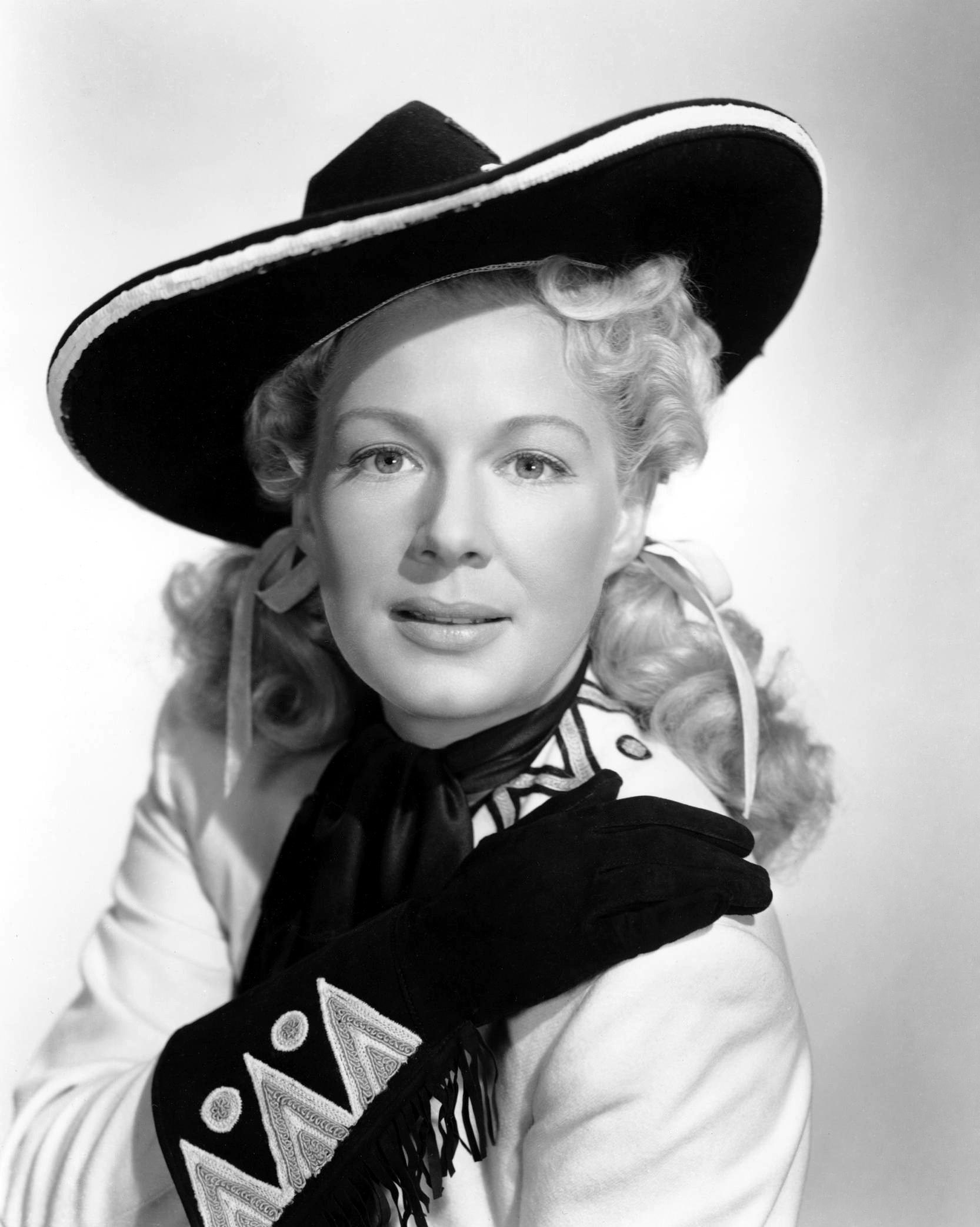 Studio promo portrait of Betty Hutton; publicity photo for the film Annie Get Your Gun (1950)